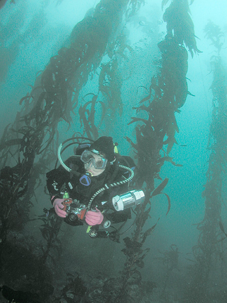 Scuba diver in kelp forest, Point Lobos. Image taken by Clark Anderson/Aquaimages.